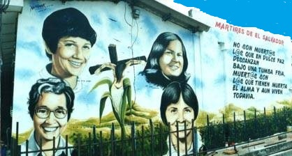 Mural con las Hermanas Mártires del Salvador 1980